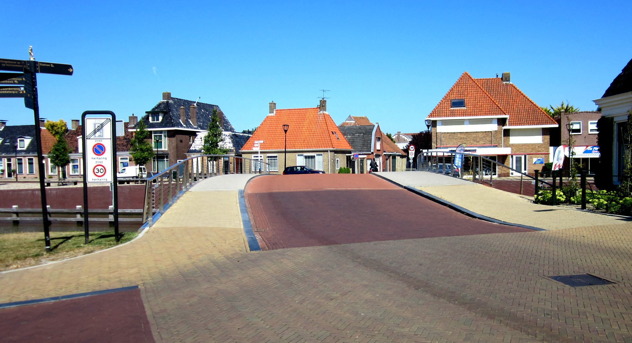 Oosterpoortsbrug (Frisian: Easterpoartsbrêge) in Franeker/Frjentsjer, Friesland, the Netherlands. Front view.